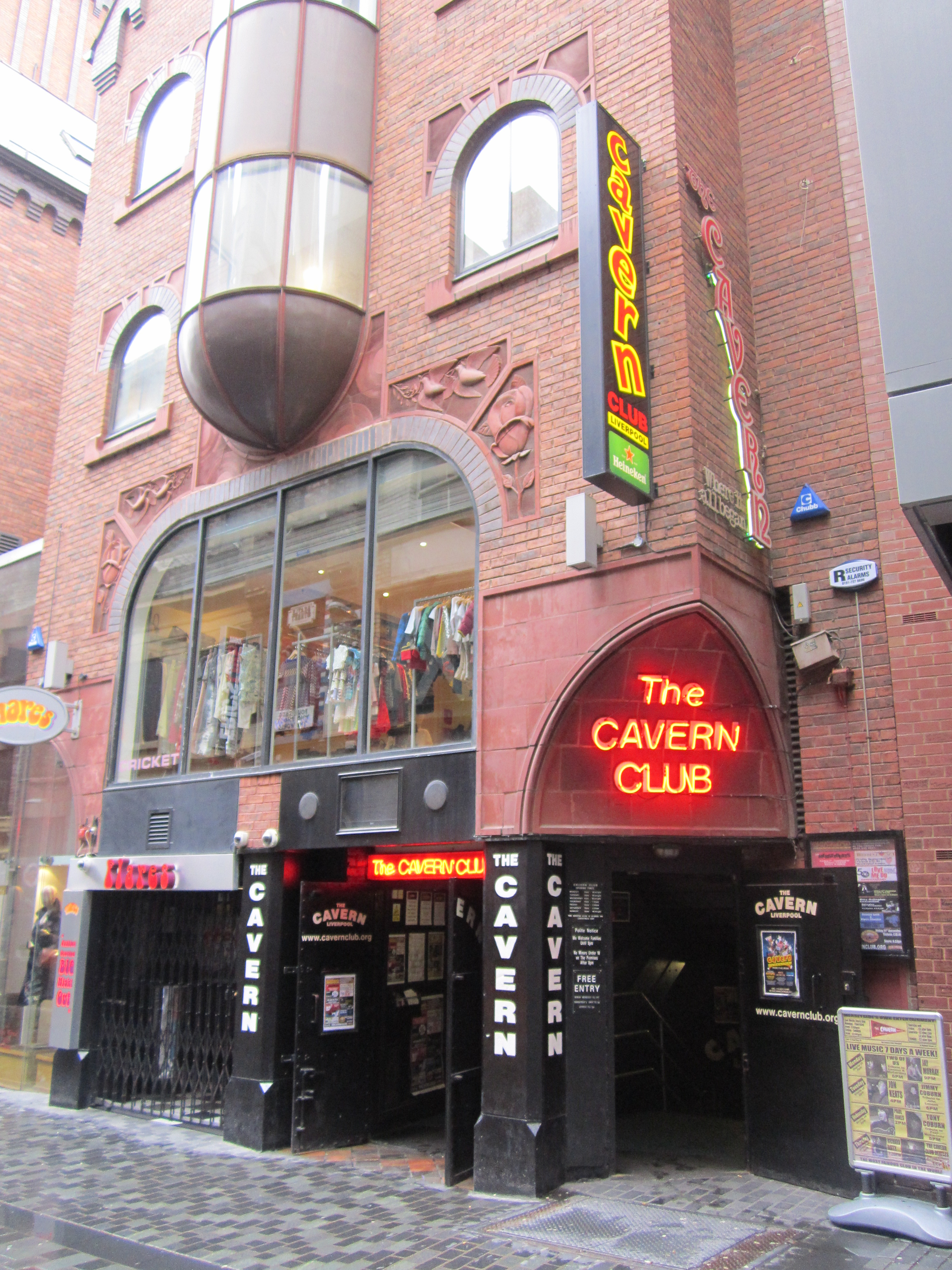 Cavern Club, Liverpool, England.